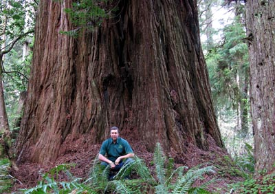 This is an image of an arborist, M. D. Vaden of Oregon (self), in Prairie Creek Redwoods State Park during the Spring of 2008, next to Iluvatar, the 2nd largest known Coast Redwood Sequoia sempervirens at that time. This trip to the park was to photograph and measure some titan redwood trees.